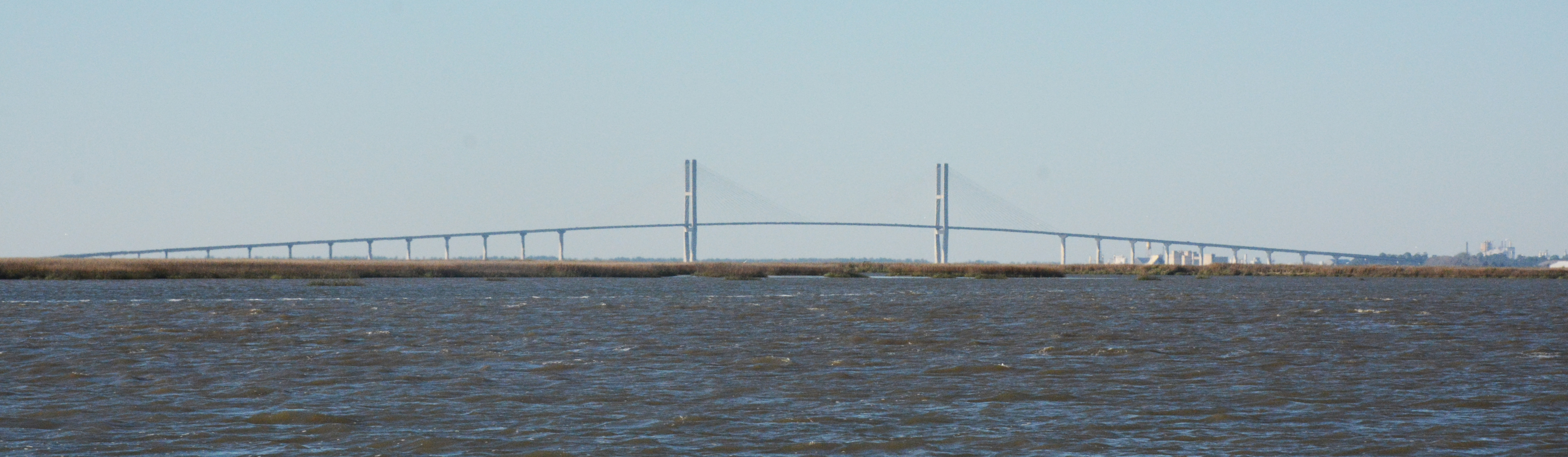 Sidney Lanier Bridge, Brunswick GA, seen from Jekyll Island